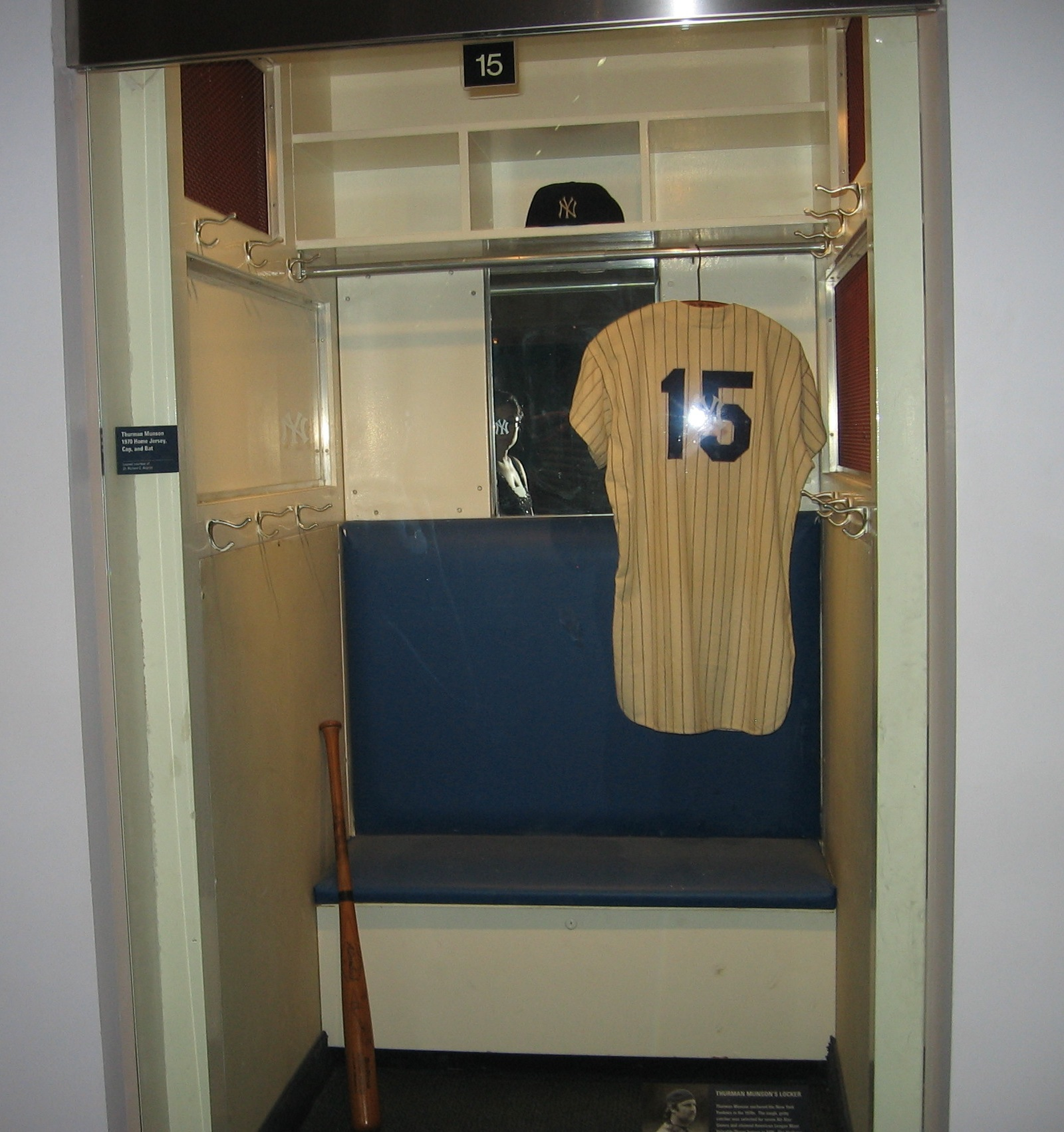 Thurman Munson's preserved locker at the Yankees Museum in Yankee Stadium.